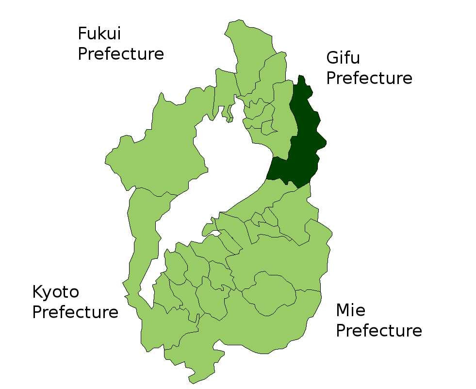 Location Map of Maibara in Shiga Prefecture, Japan